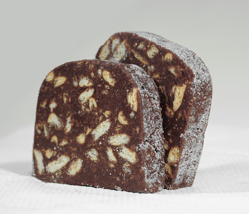 Chocolat Salami